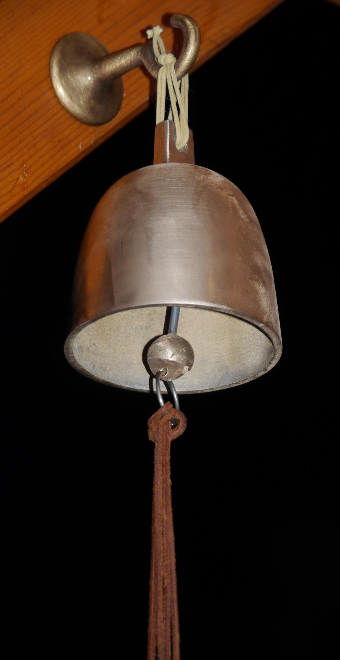 modern bee skep shaped bell